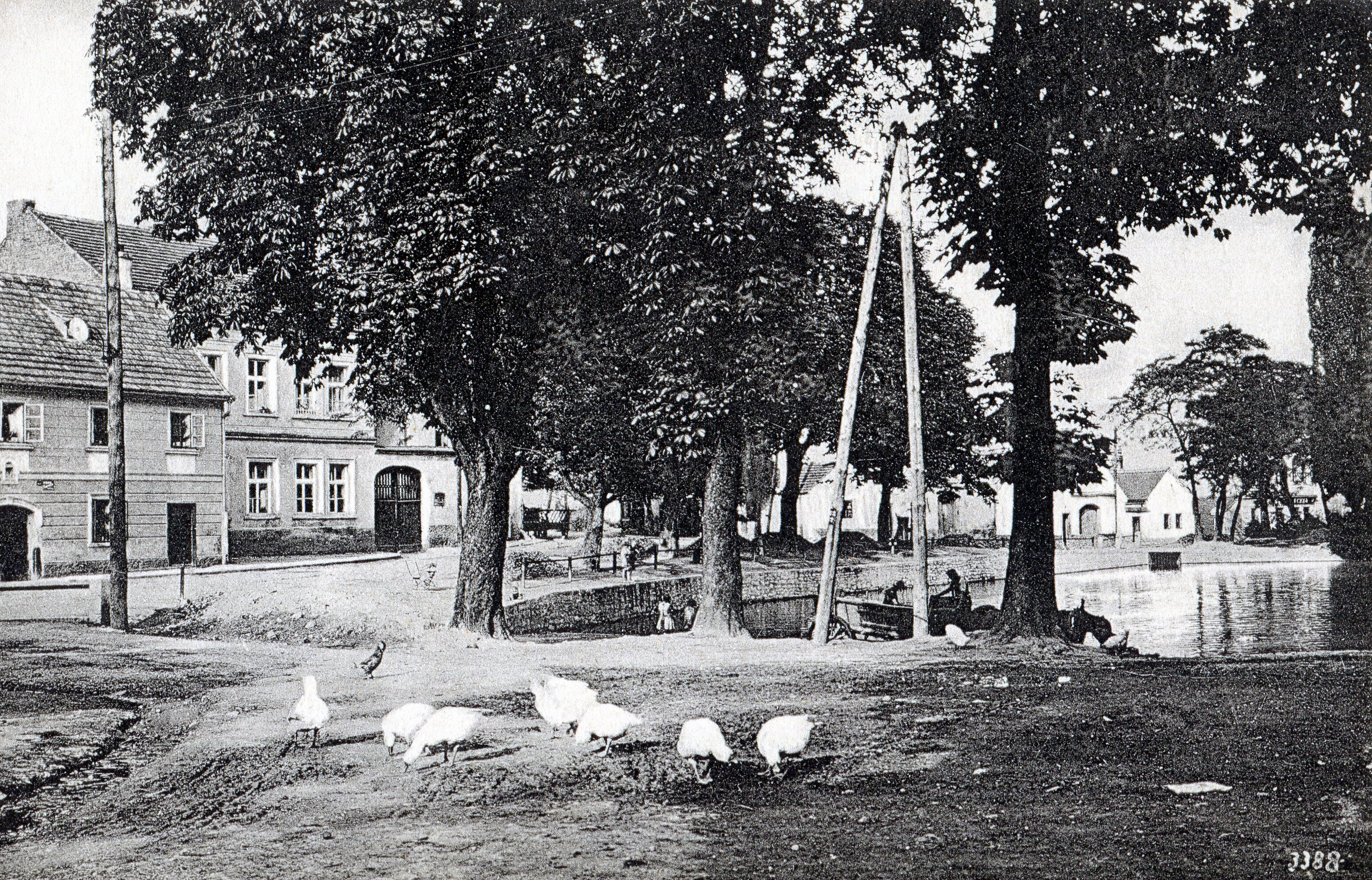 Jinonice village square with a pond, aprox. 1933 (written on the backside in pencil)